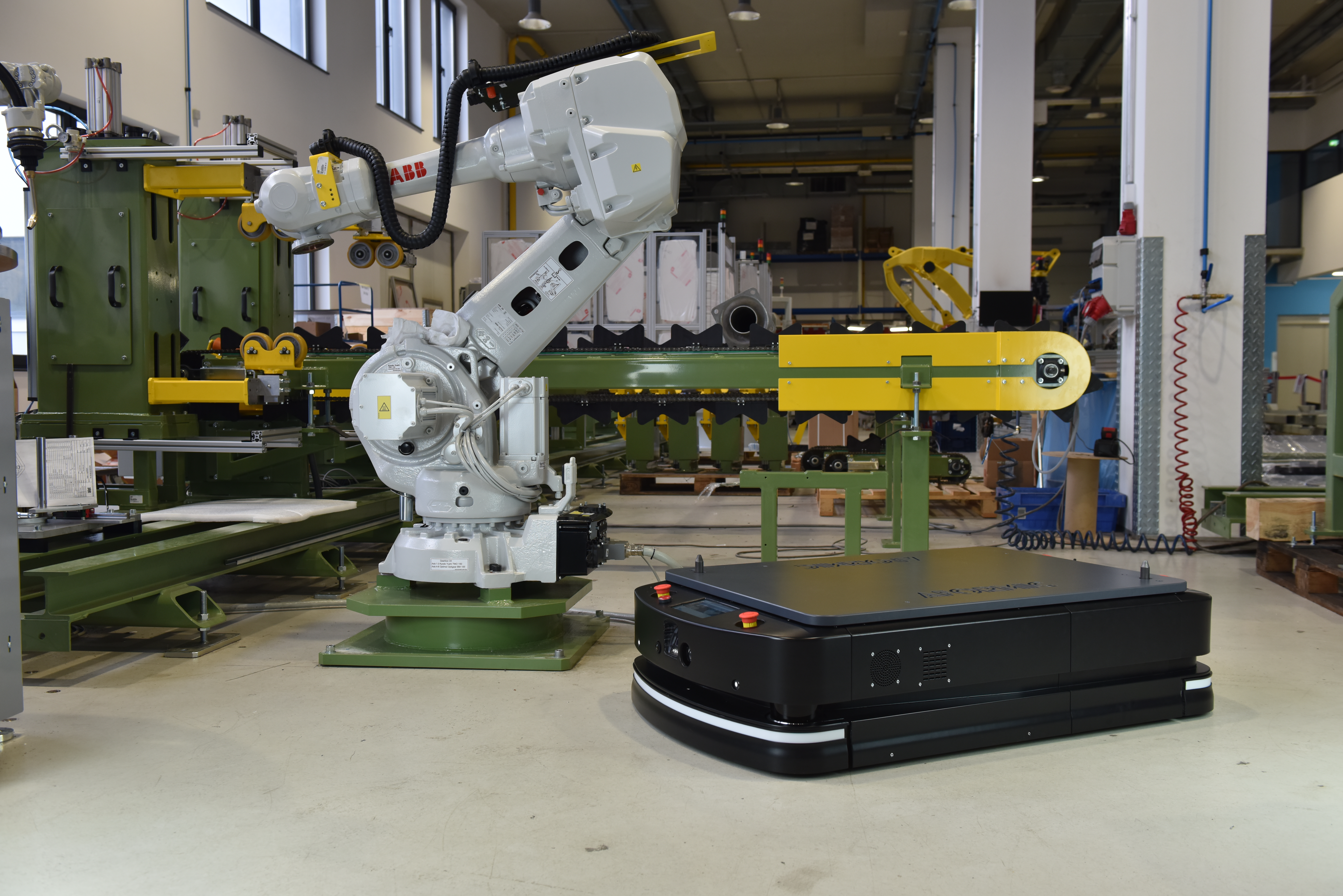 Automated Guided Vehicle by AIUT